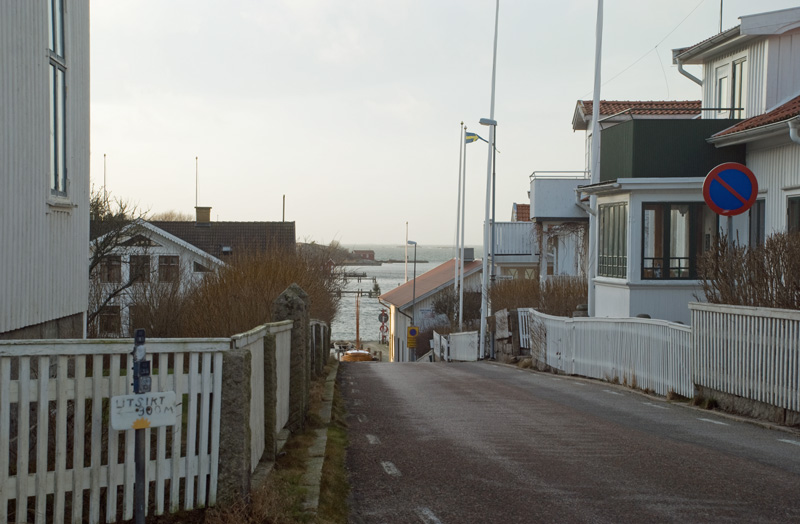 Coastal village Havstenssund, Sweden